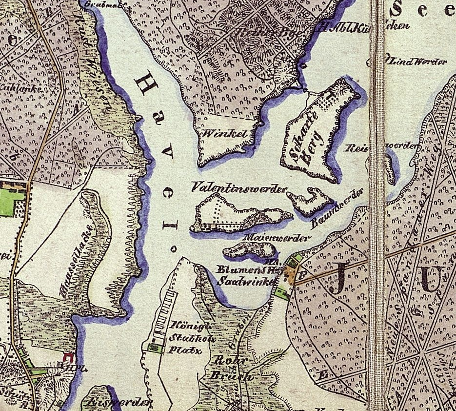 River Havel and Tegeler See, map from 1842 . Today part of Berlin.